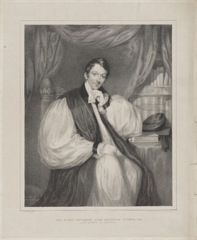 Portrait of John Matthias Turner (died 1831), English Bishop of Calcutta.